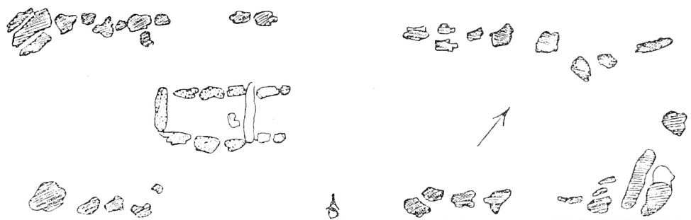 Outline of the dolmen Bretsch 3, Saxony-Anhalt